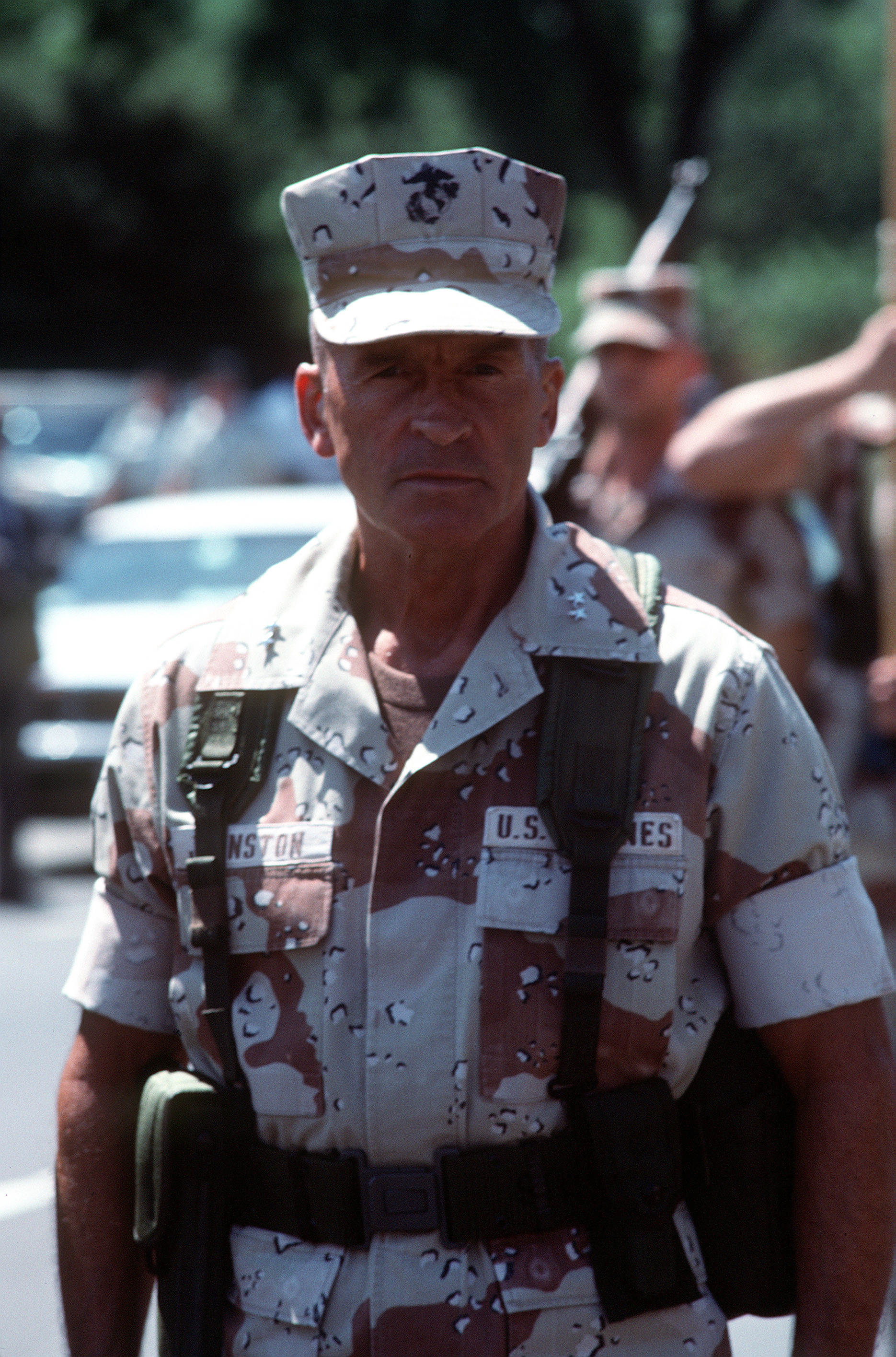 MAJ. GEN. Robert B. Johnston, chief of staff, U.S. Central Command, marches in the National Victory Celebration parade. The day-long celebration is being held in honor of the coalition forces that liberated Kuwait during Operation Desert Storm